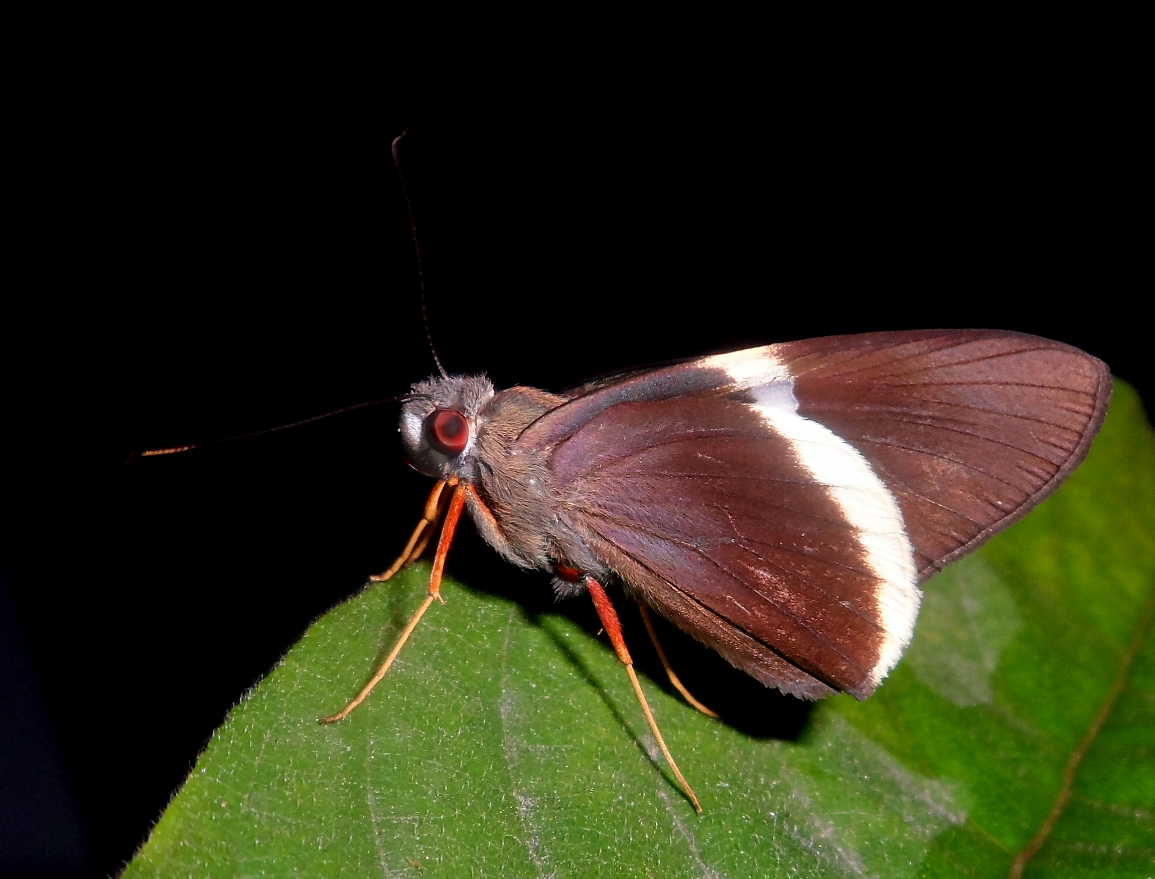 Orses cynisca